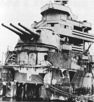 Damage to the U.S. Navy heavy cruiser USS New Orleans (CA-32) with everything ahead of turret No.2 missing after being hit by a single torpedo which exploded her forward magazines. Photographed after the Battle of Tassafaronga which occurred on 30 November 1942.